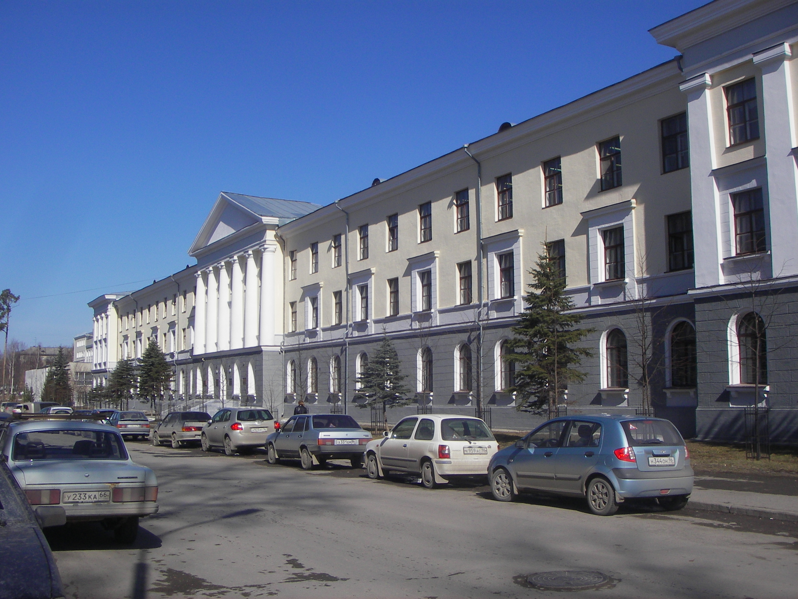 Institute of Physics of metalls, Yekaterinburg, Russia Институт физики металлов Уральского отделения Российской академии наук, Екатеринбург